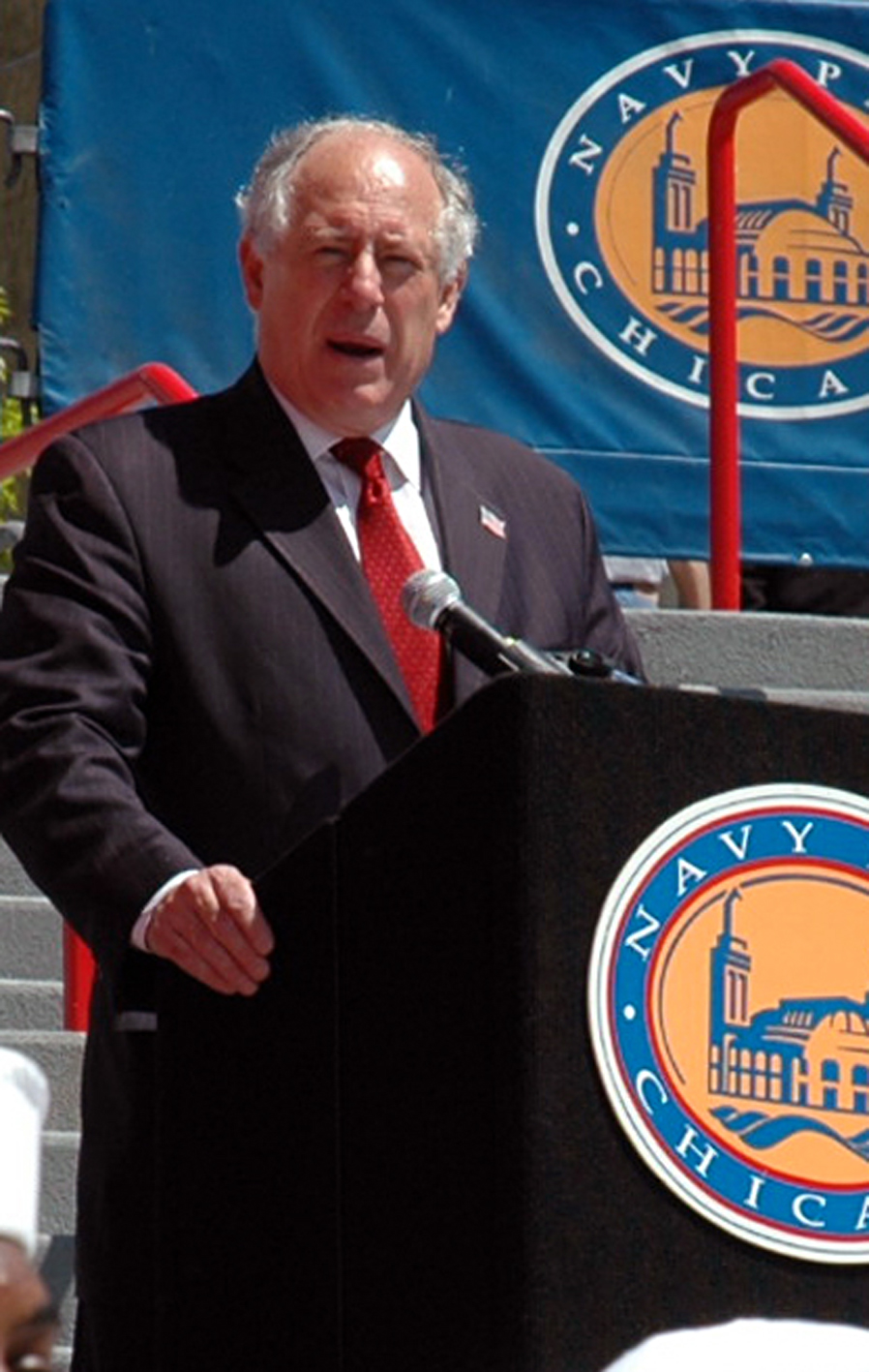 Chicago, Ill. (May 20, 2006) - Illinois Lt. Governor Pat Quinn dedicates Armed Forces Day and the conclusion of Chicago Navy Week at ChicagoUs Navy Pier. The Navy Pier marked the day with free attractions for military personnel, military performances and displays, ending with a rousing patriotic fireworks show. Navy Week Chicago is one of twenty such celebrations planned for U.S. cities this year by the Navy Office of Community Outreach (NAVCO). U.S. Navy photo by Senior Chief Photographer's Mate Douglas E. Waite (RELEASED)